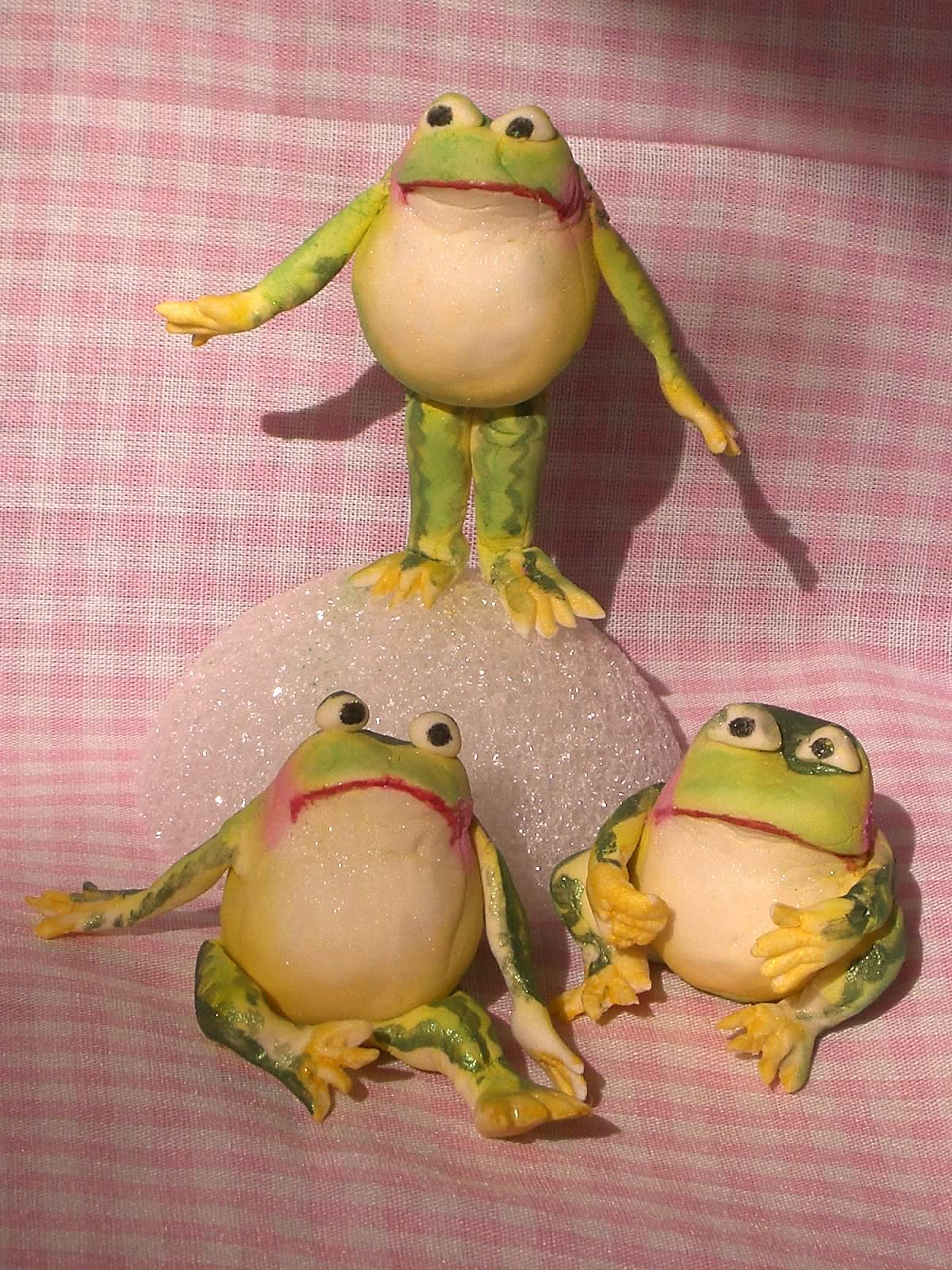 The frog cakes are frosted with gum paste and decorated with edible chalks and and painted with vodka-blended paints. The standing frog is just under 2 inches tall.